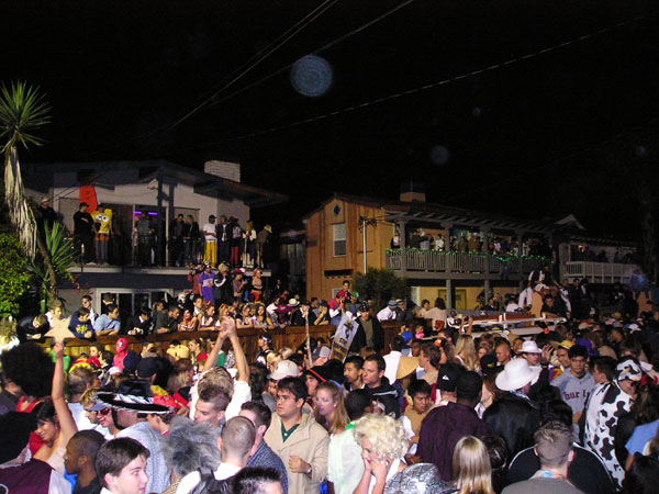 Halloween revelers on the 6600 block of Del Playa Drive